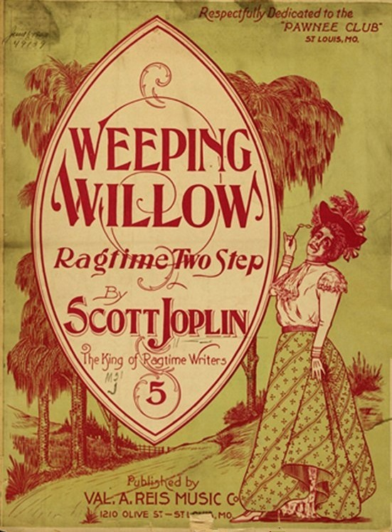 Cover of the sheet music to Scott Joplin's Classic Piano Rag, Weeping Willow, Ragtime Two Step, 1903.